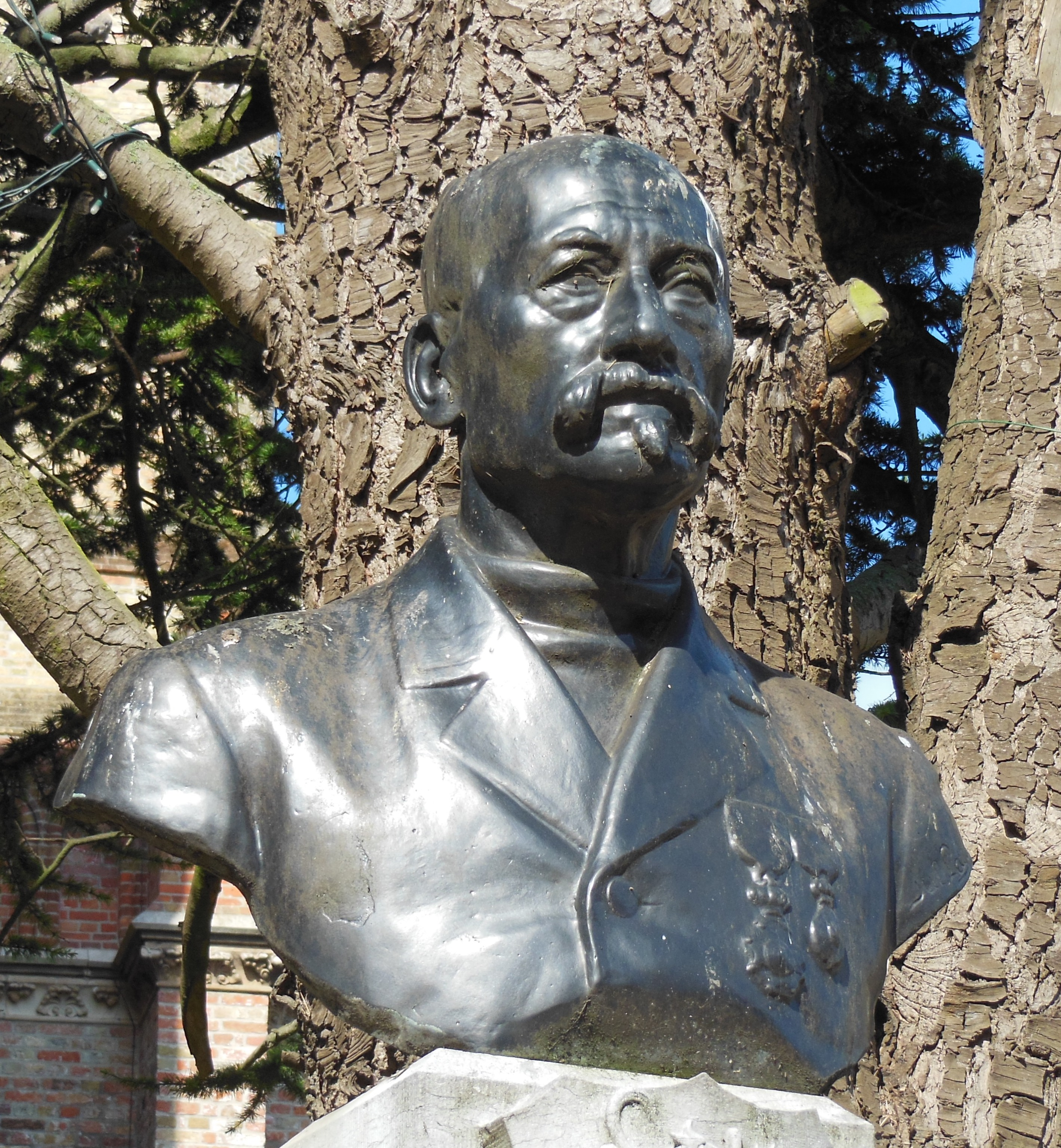 Bust made by Jules Lagae